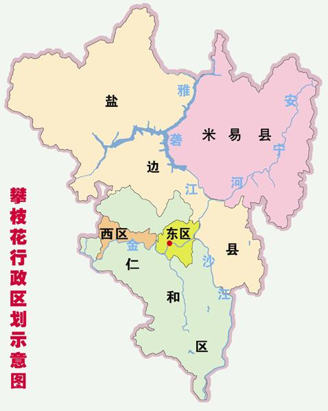 District of Panzhihua City, Sichuan Province, China